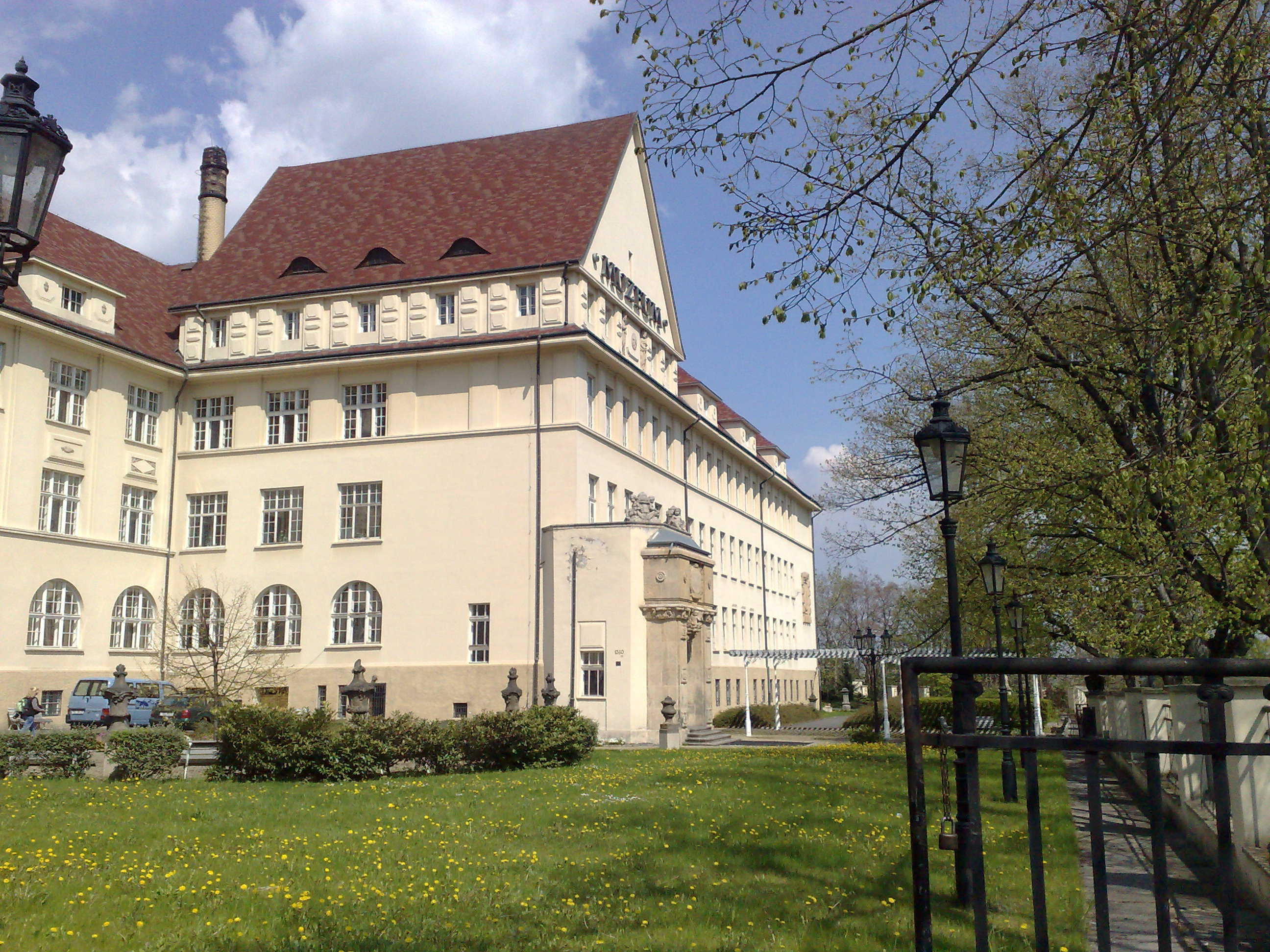 Regional Museum in Most (Oblastní muzeum v Mostě)